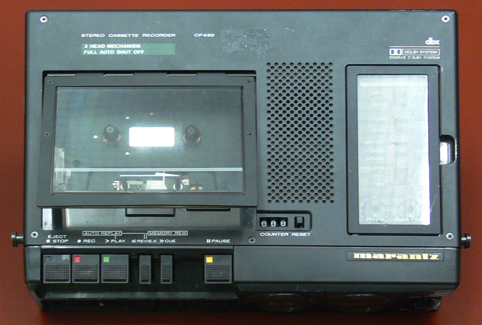 Marantz CP 430 cassette recorder with dbx noise reduction; Department of Music Ethnology, Ethnological Museum, Berlin, Germany - cropped/perspective version